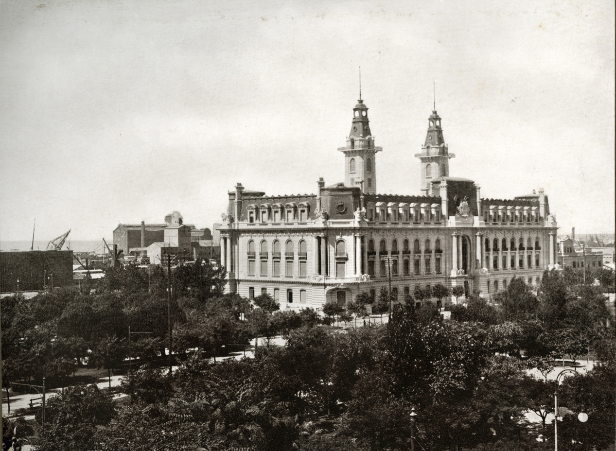 The Customs Administration Building, Buenos Aires, Argentina.